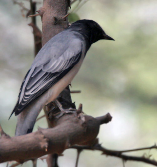 Black-headed Cuckooshrike Coracina melanoptera at Sindhrot in Vadodara District of Gujarat, India.